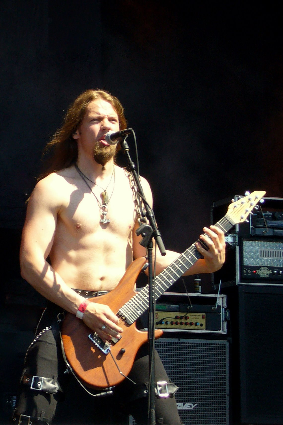 Heri Joensen with his custom Bjarnastein guitar; made especially for him.